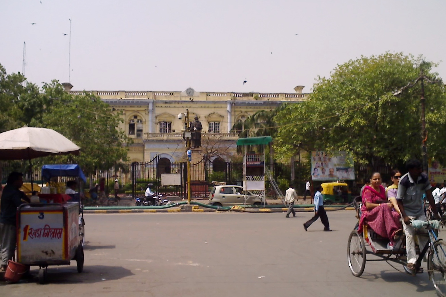 Town hall, Chandni chowk, Delhi